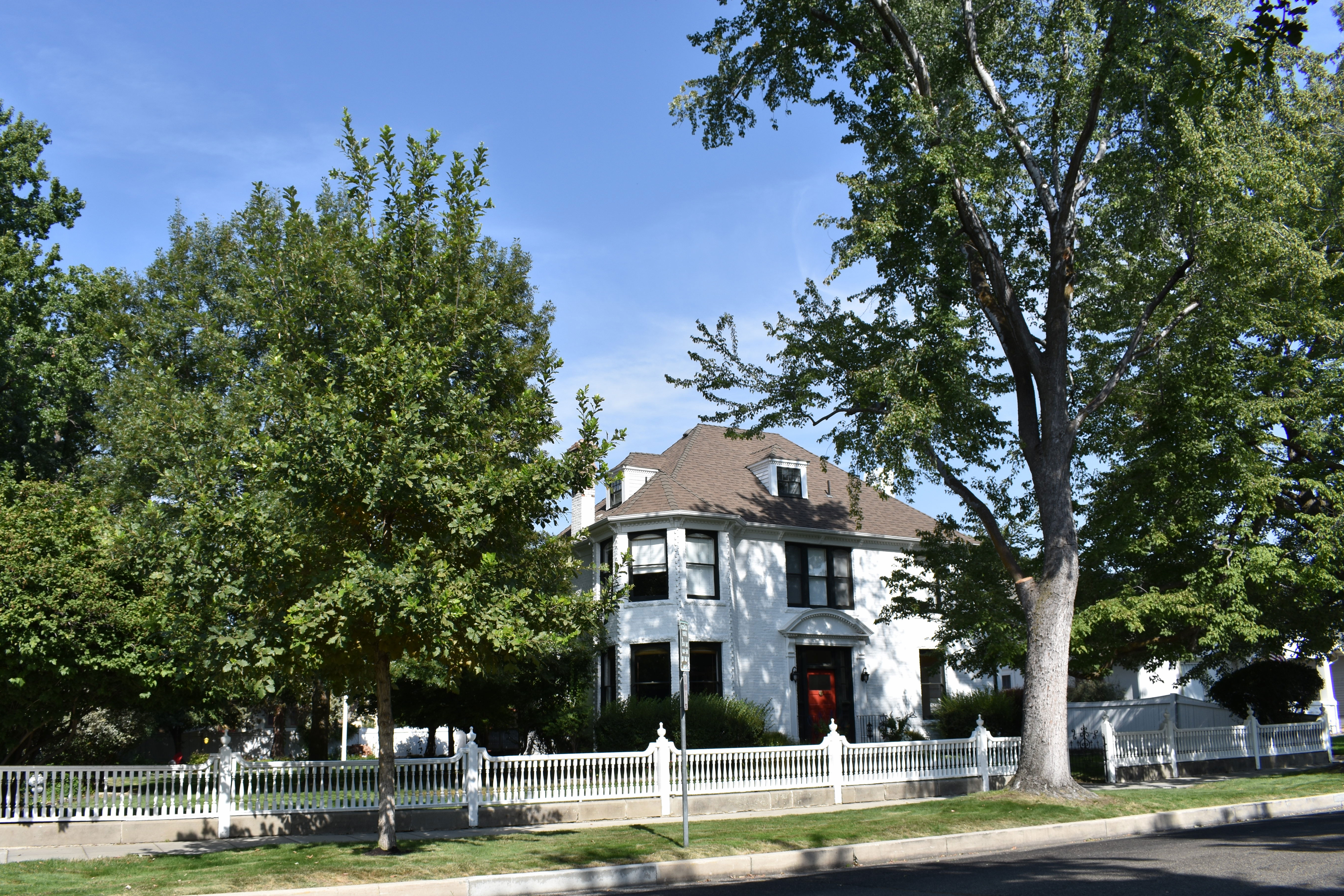 The John A. O'Farrell House (1892) in Boise, Idaho, is listed on the National Register of Historic Places. The front yard is fenced with a balustrade from the ornamental parapet balcony of the demolished Dewey Palace Hotel in Nampa, Idaho.